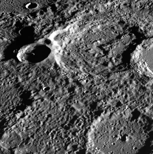 Oblique view of Purcell crater on Mercury. MESSENGER Wide Angle Camera image. North is at left. Width is approximately 112 km at bottom. Emission Angle: 52.4 Incidence Angle: 81.4 Latitude: 81.0 Longitude: 201.8 Phase Angle: 70.4